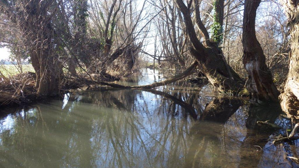 Kalter Gang view south